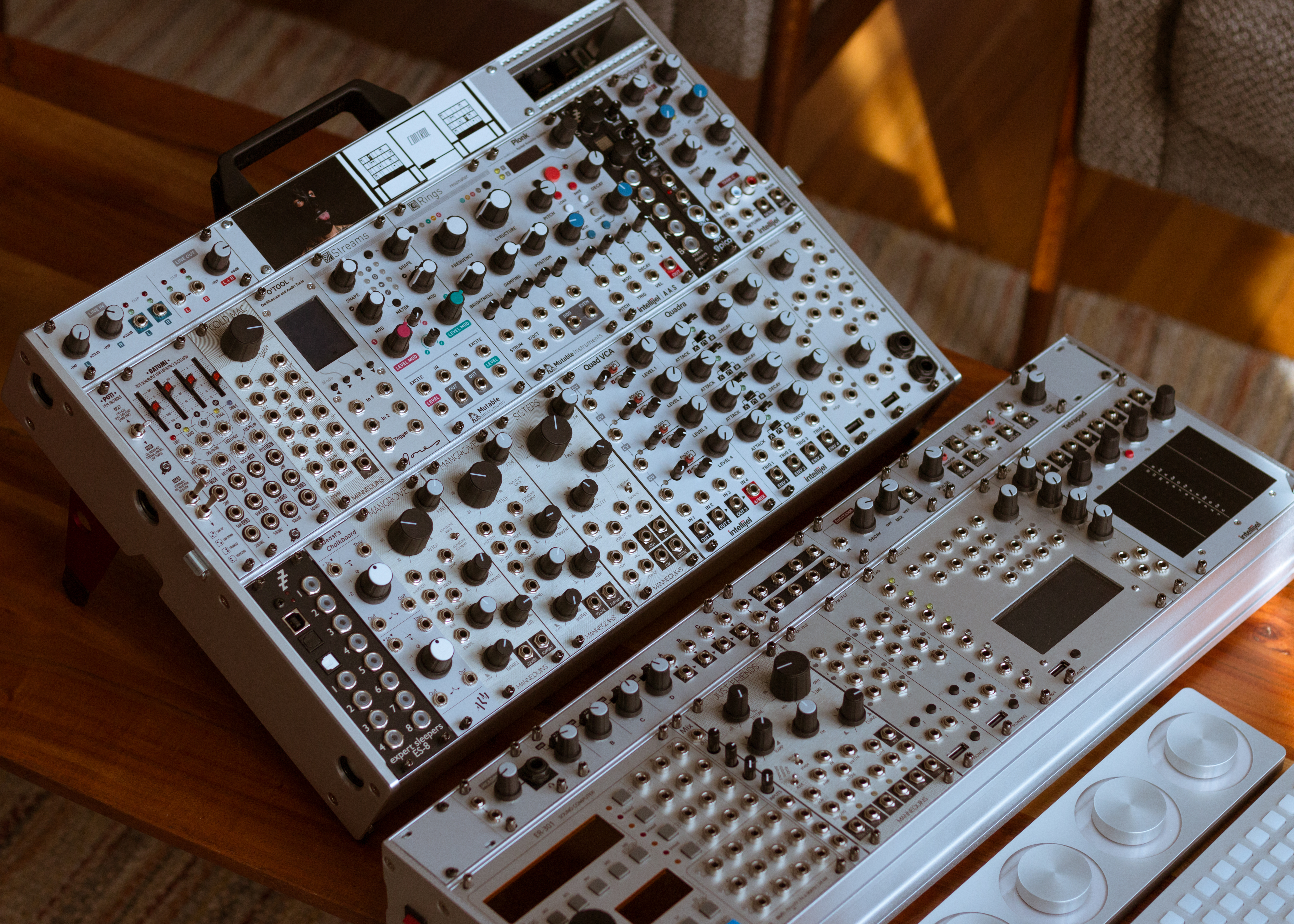 A small Eurorack setup.